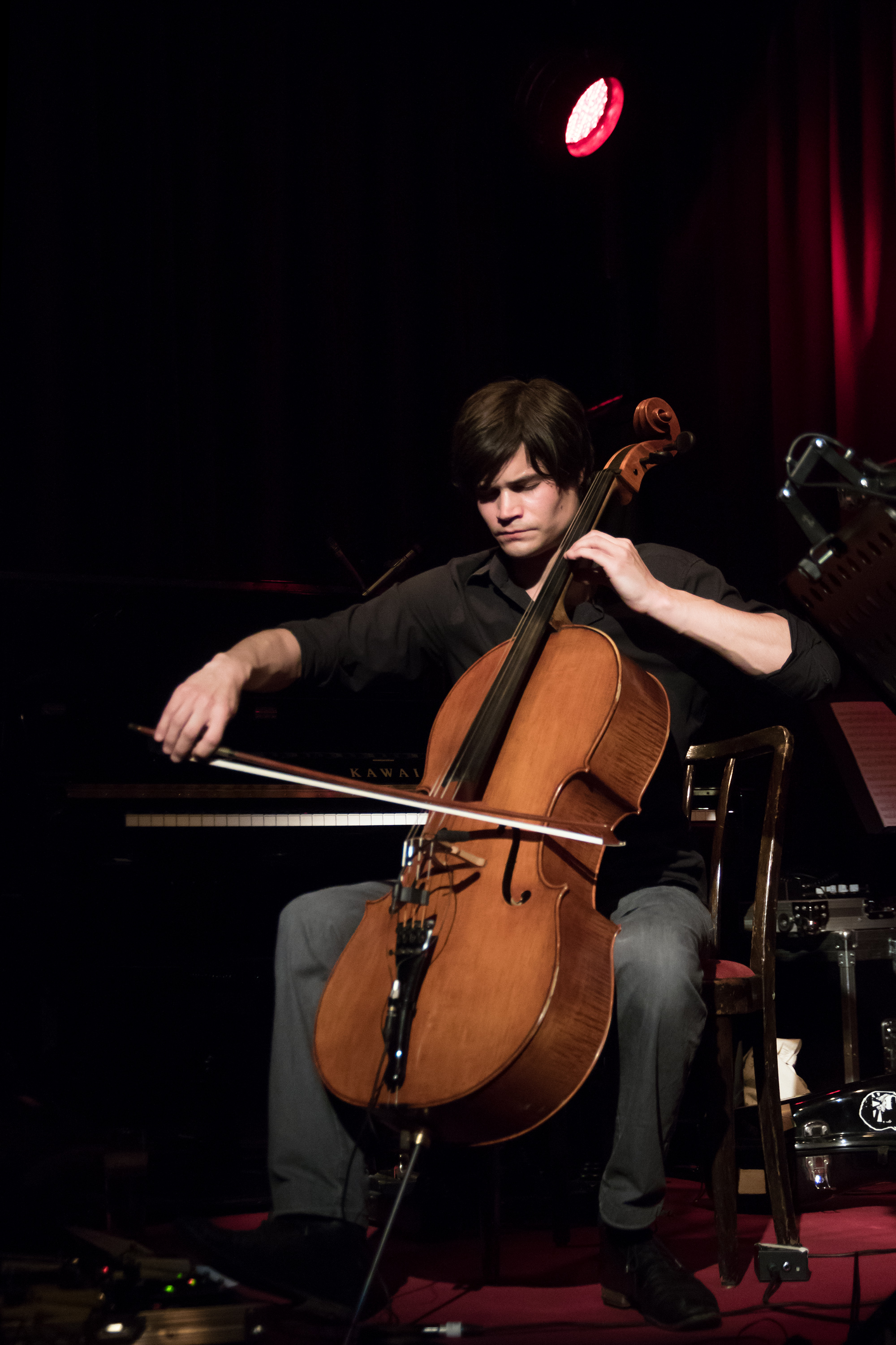 Lukas Lauermann, concert at Rote Bar at Volkstheater in Vienna, Austria.